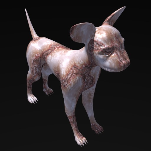 Marble-Dog. The model is made by AddZero: Blender Model Repository